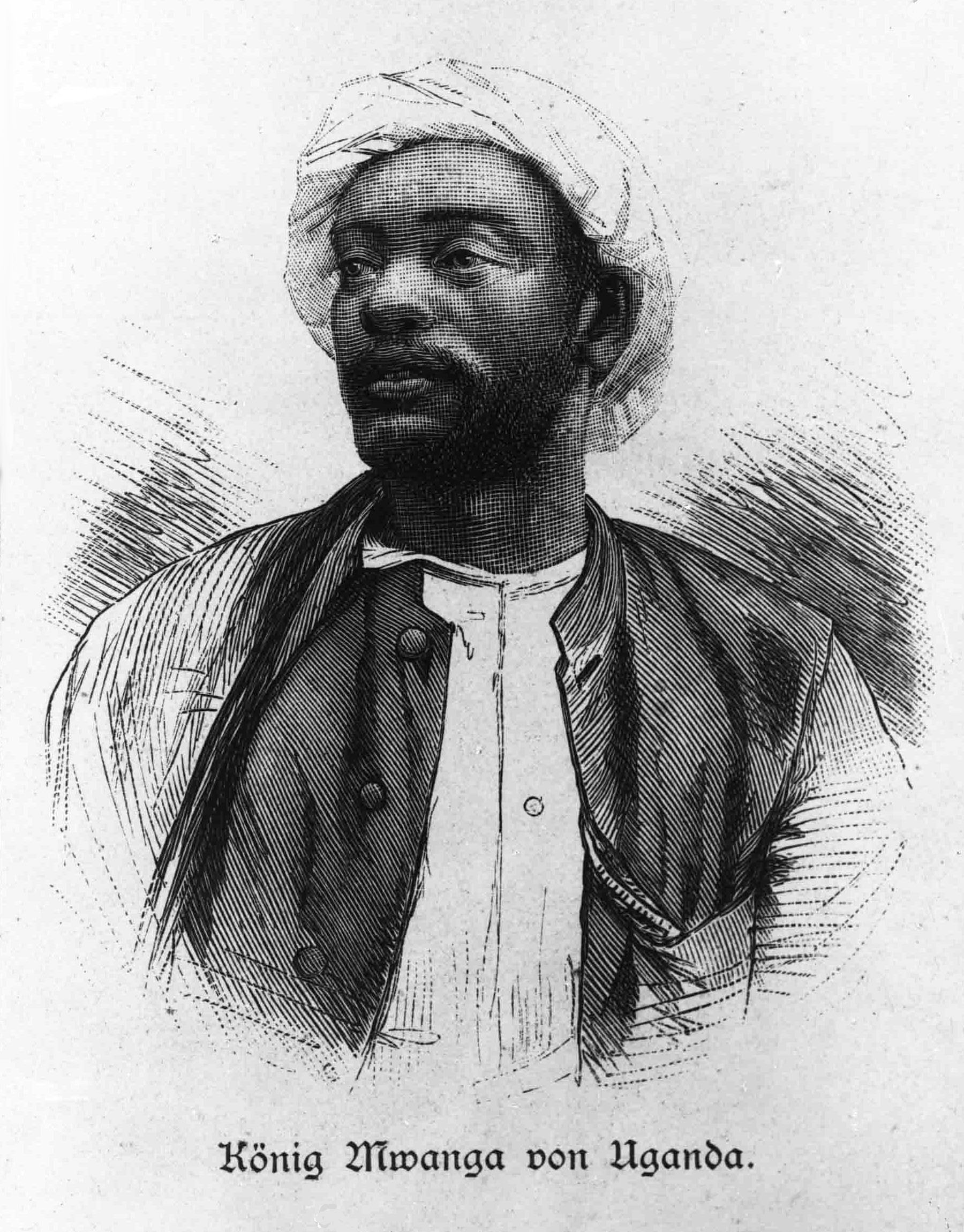 King (Kabaka) Mwanga from Buganda (1868-1903).